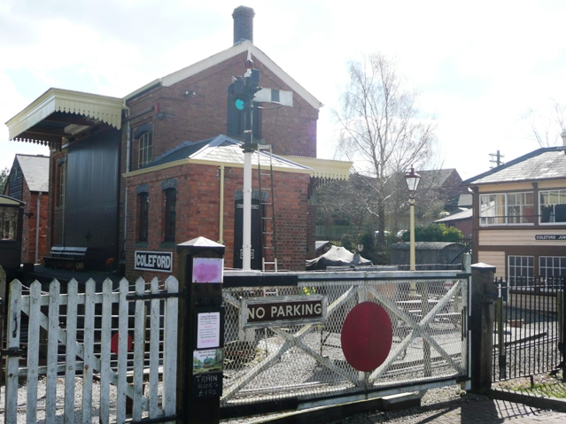 Coleford railway museum (4) A former crossing gate, not in its original location, marks the entrance to Coleford railway museum. No parking refers to the area to the right which is now a car park.